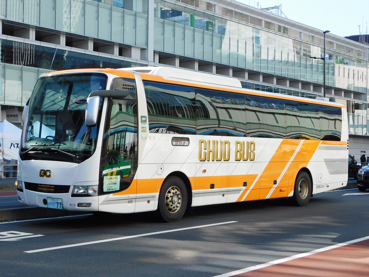 Gunma Chuo bus Mitsubishi Fuso Aero Ace (BKG-MS96JP) transferred by JR bus Kanto